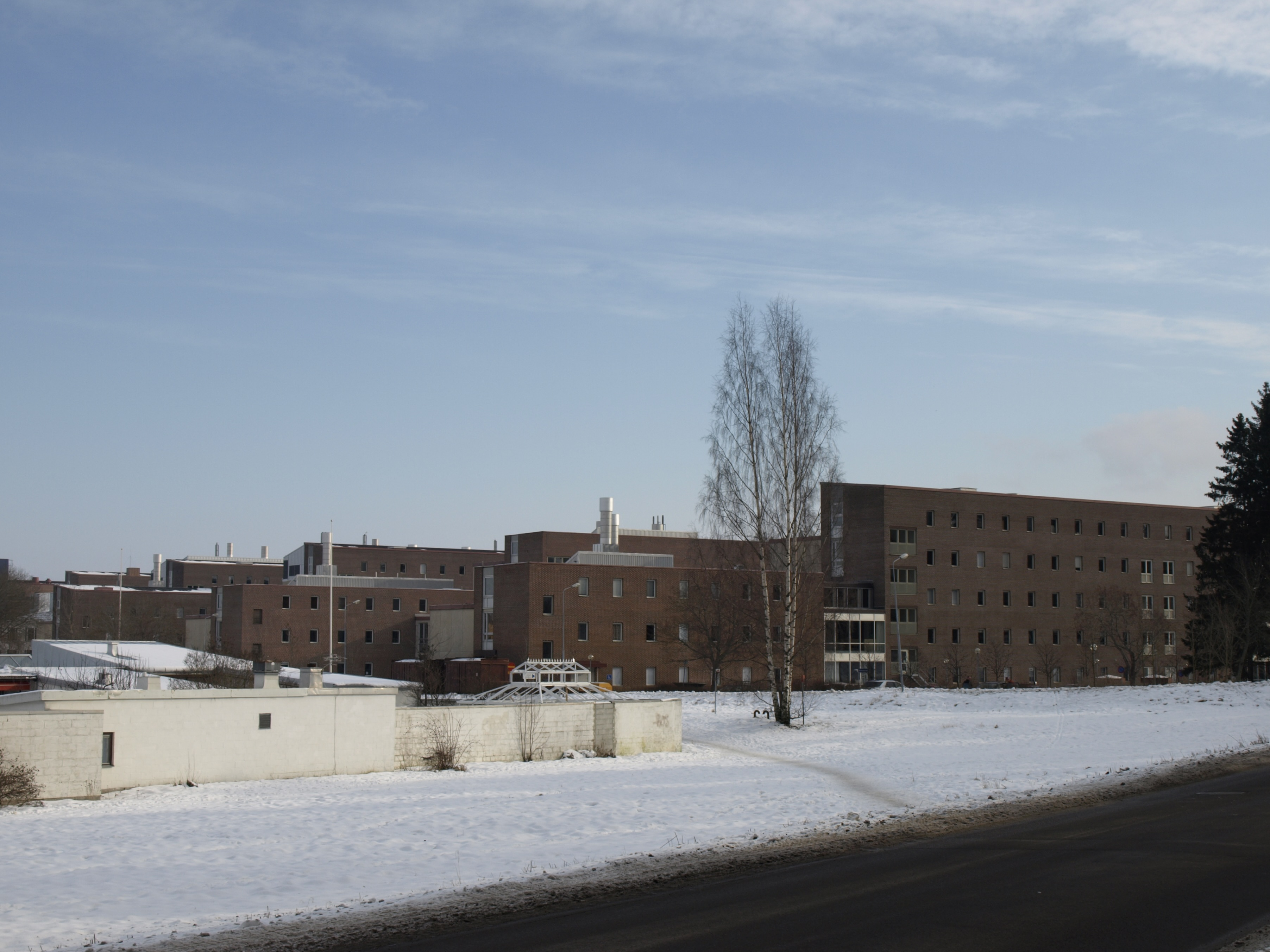 Uppsala Biomedical Center.